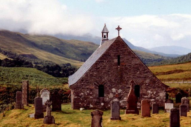 Cille Choirille The small mediaeval church dedicated to St Cyril sits high on the Braes of Lochaber, above the A86 road and the West Highland railway. After being roofless for many years, it was restored in 1933.